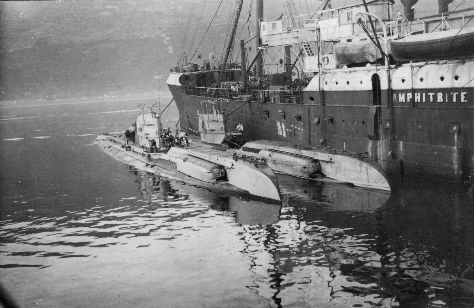 2 German Type UC II submarines alongside Austro-Hungarian depot and accommodation ship AMPHITRITE at Gjenovic, Bocche di Cattaro, the southern Austrian base in the Adriatic Sea. One of the submarines is possibly UC 35.